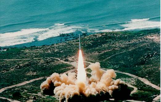 Launch of the TAOS satellite.